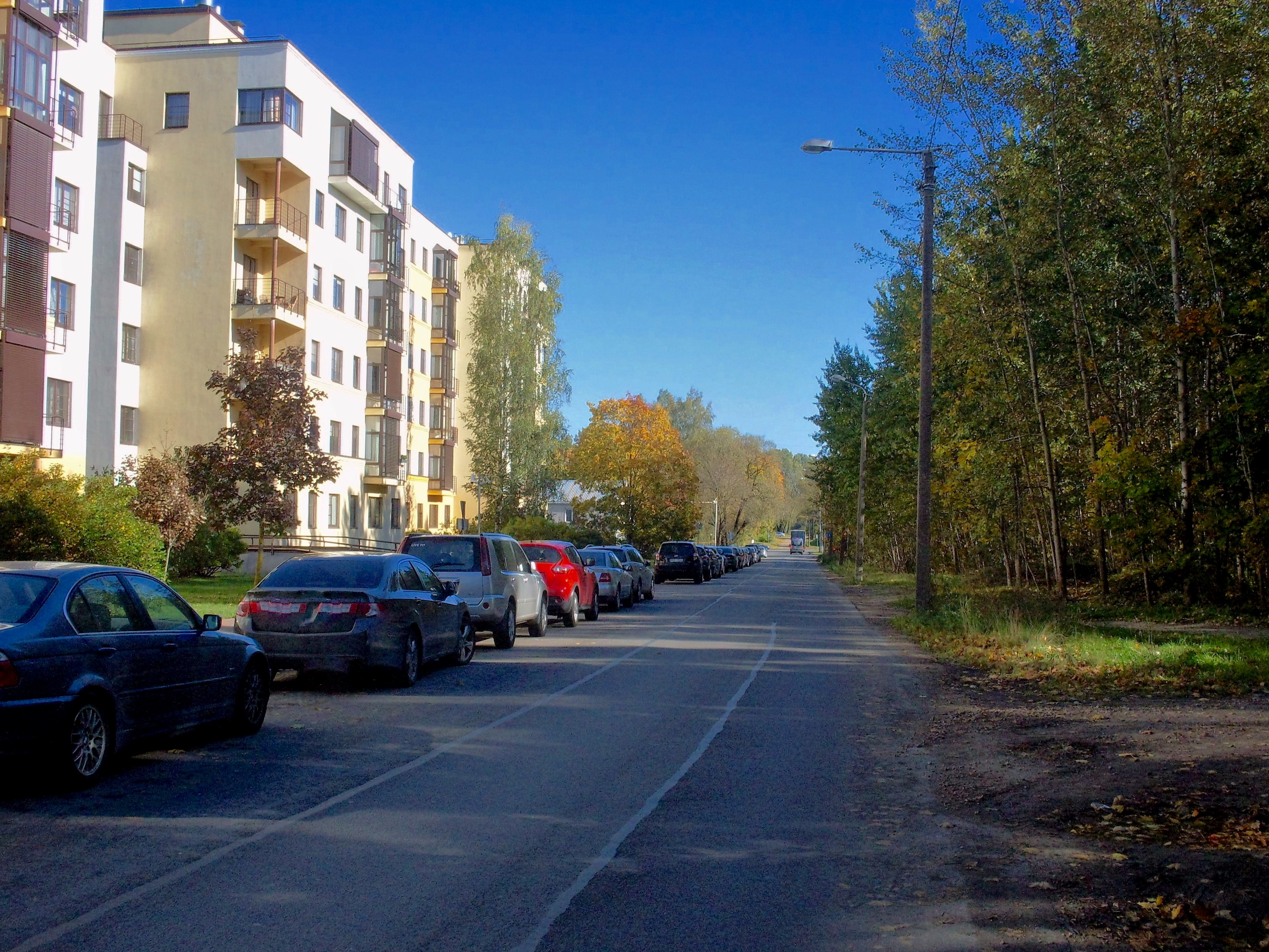 Riga, Dignājas street